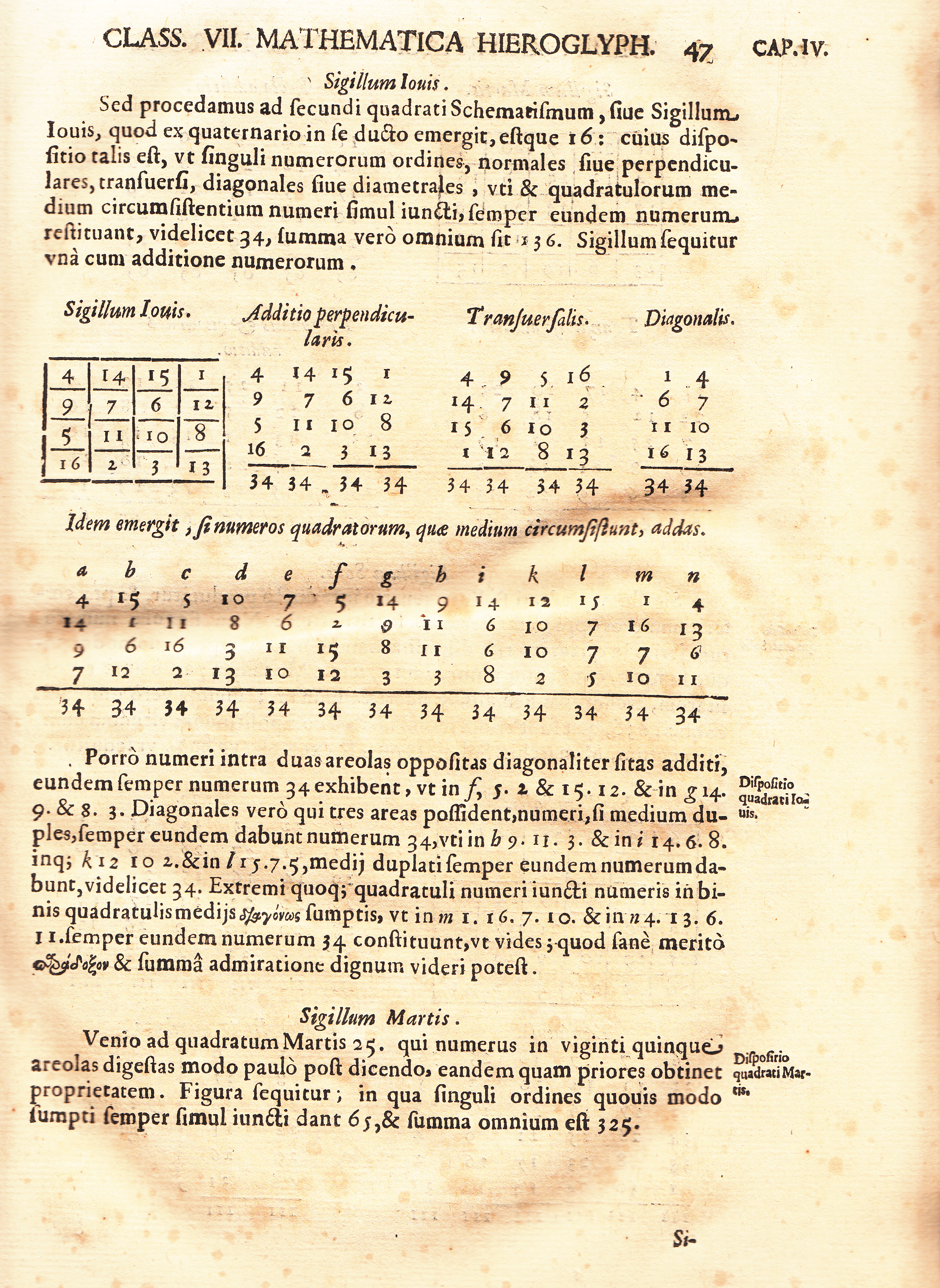 Page 47 of the second part of Vol. II of Athanasius Kircher's "Oedipus Aegyptiacus". The chapter about "Hieroglyphic Mathematics" also deals with magic squares. This page shows "Jupiter's square" which is closely related to Dürer's magic square.